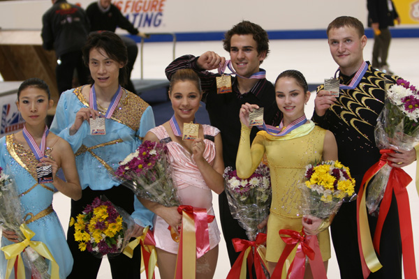 The pairs at the 2007 Skate America. From left to right: Pang Qing / Tong Jian (2nd); Jessica Dubé / Bryce Davison (1st); Vera Bazarova / Yuri Larionov (3rd)